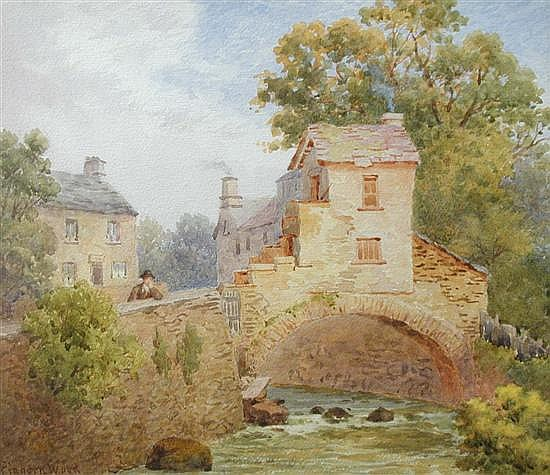 This watercolour by Lewis Pinhorn Wood portrays the house on the bridge in Ambleside, Cumbria